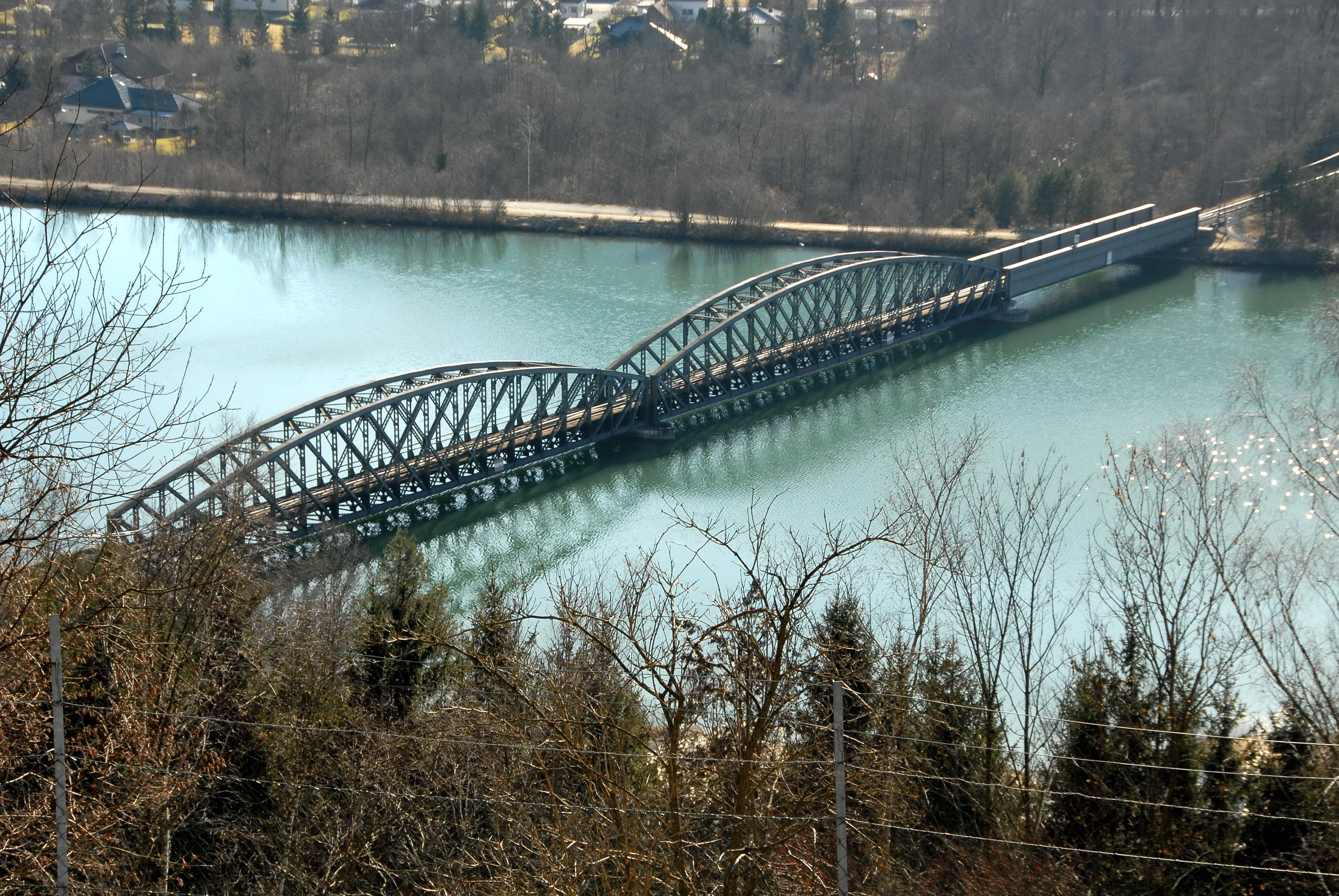 Railroad bridge across the river Drau near the castle Hollenburg and close to the village Strau, municipality Ferlach, district Klagenfurt Land, Carinthia, Austria, EU